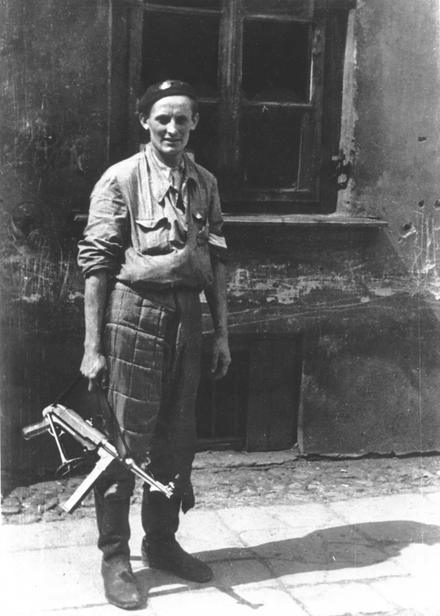 Warsaw Uprising: Roman Marchel "Rom" standing with German MP-40 in the region around barricade on Ciepła Street. "Rom" belong to unit PWB/17/S (Podziemna Wytwórnia Banknotów 17/S or Underground Publisher of currency 17/S) which was defending Polish Mint (WPW).